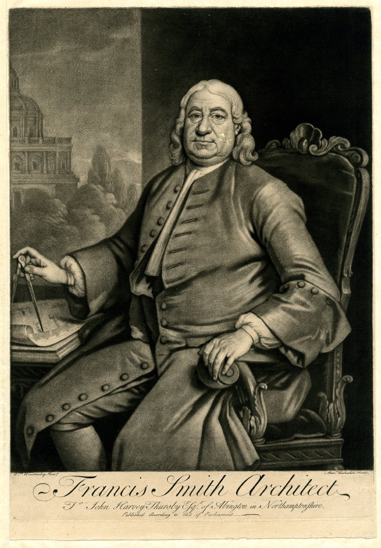 Portrait of Francis Smith of Warwick (1672–1738), English master-builder and architect.